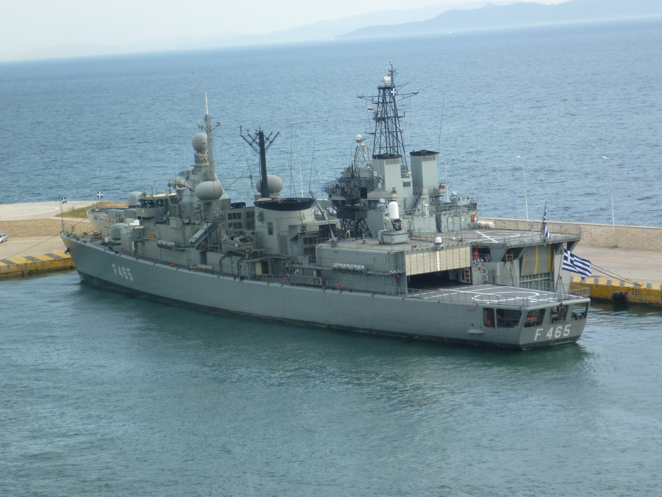 Greek frigate HS Themistokles (F465) at the entrance of Piraeus harbour. Alongside lies the LST HS Chios (L173).